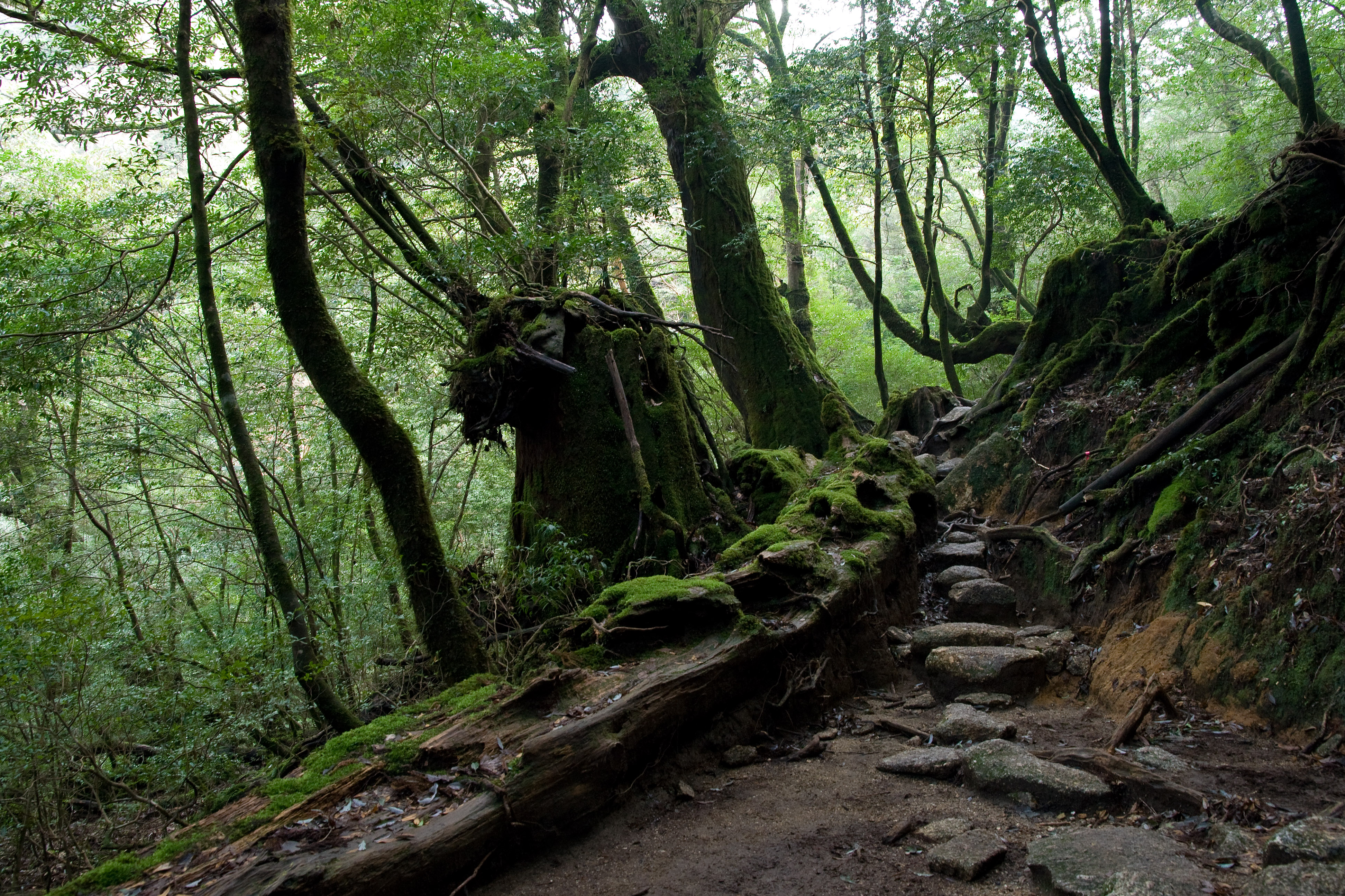 Forest in Shiratani Unsui Gorge, Yakushima, Kagoshima Pref., Japan.